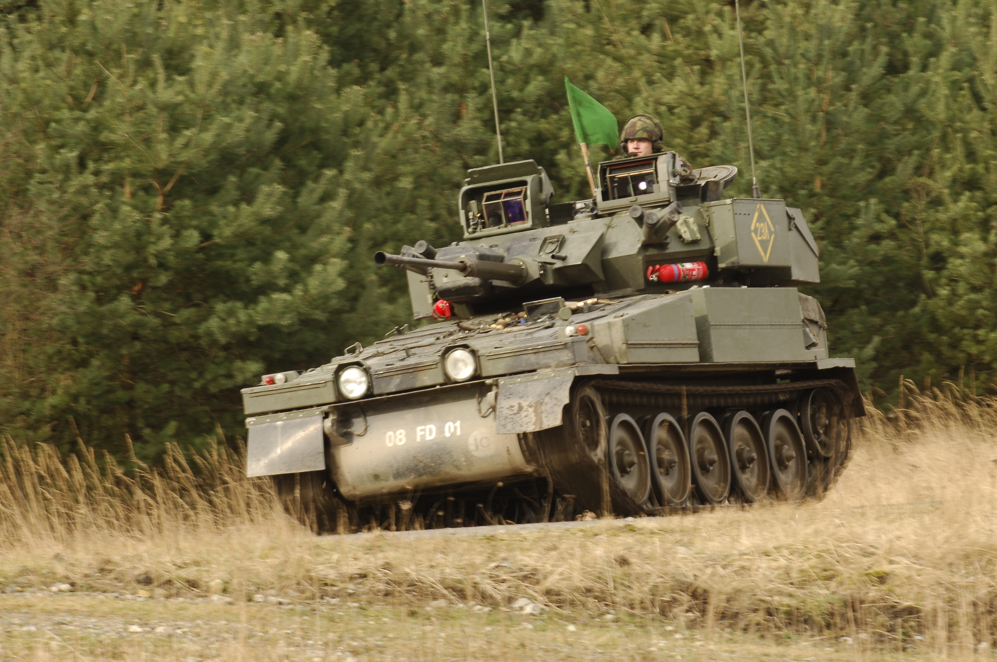 An RDG Scimitar at Hohne Ranges, Germany in 2007